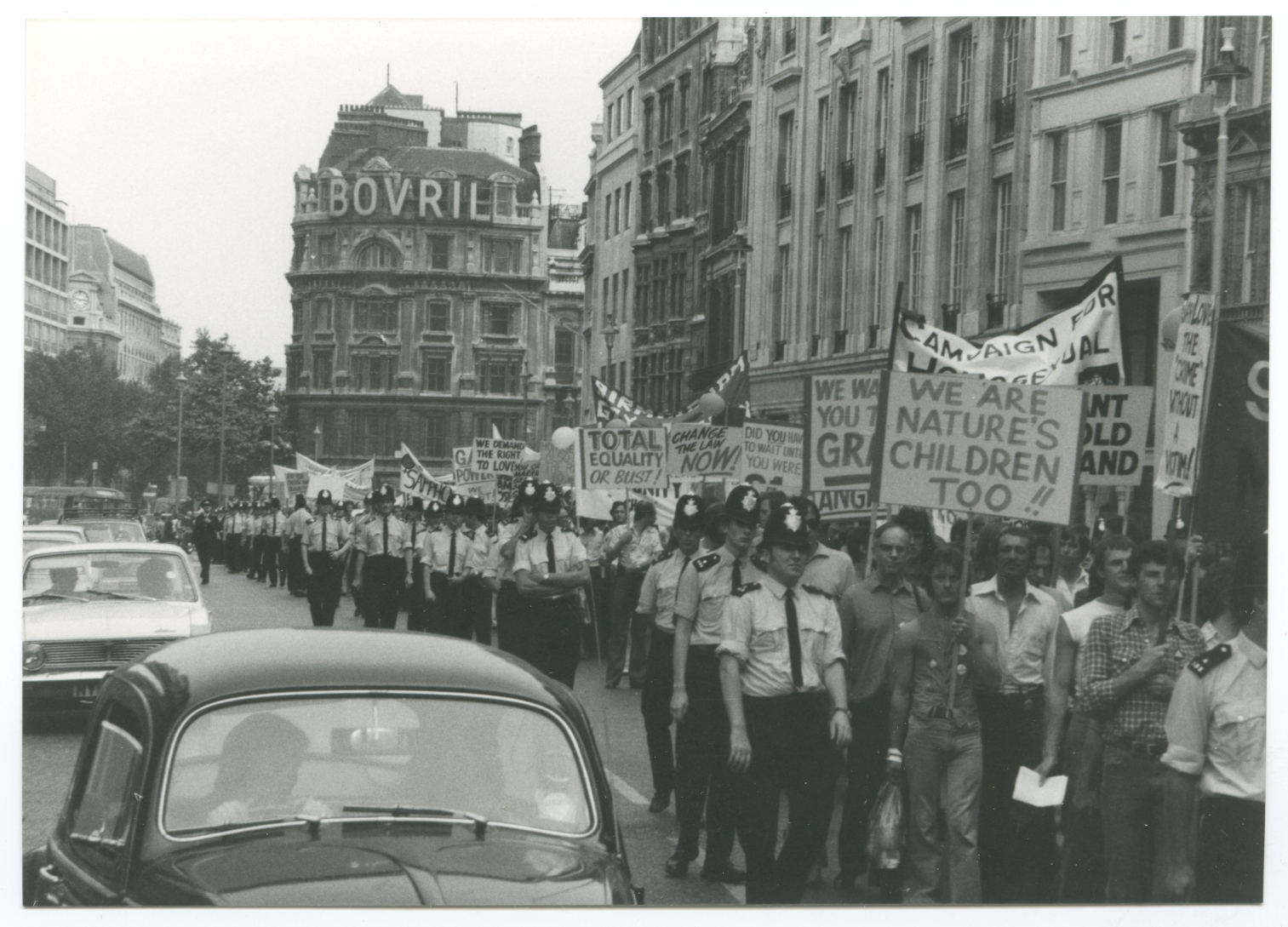 Marchers and police at Gay Pride march, London, [1974] IMAGELIBRARY/1371 Persistent URL